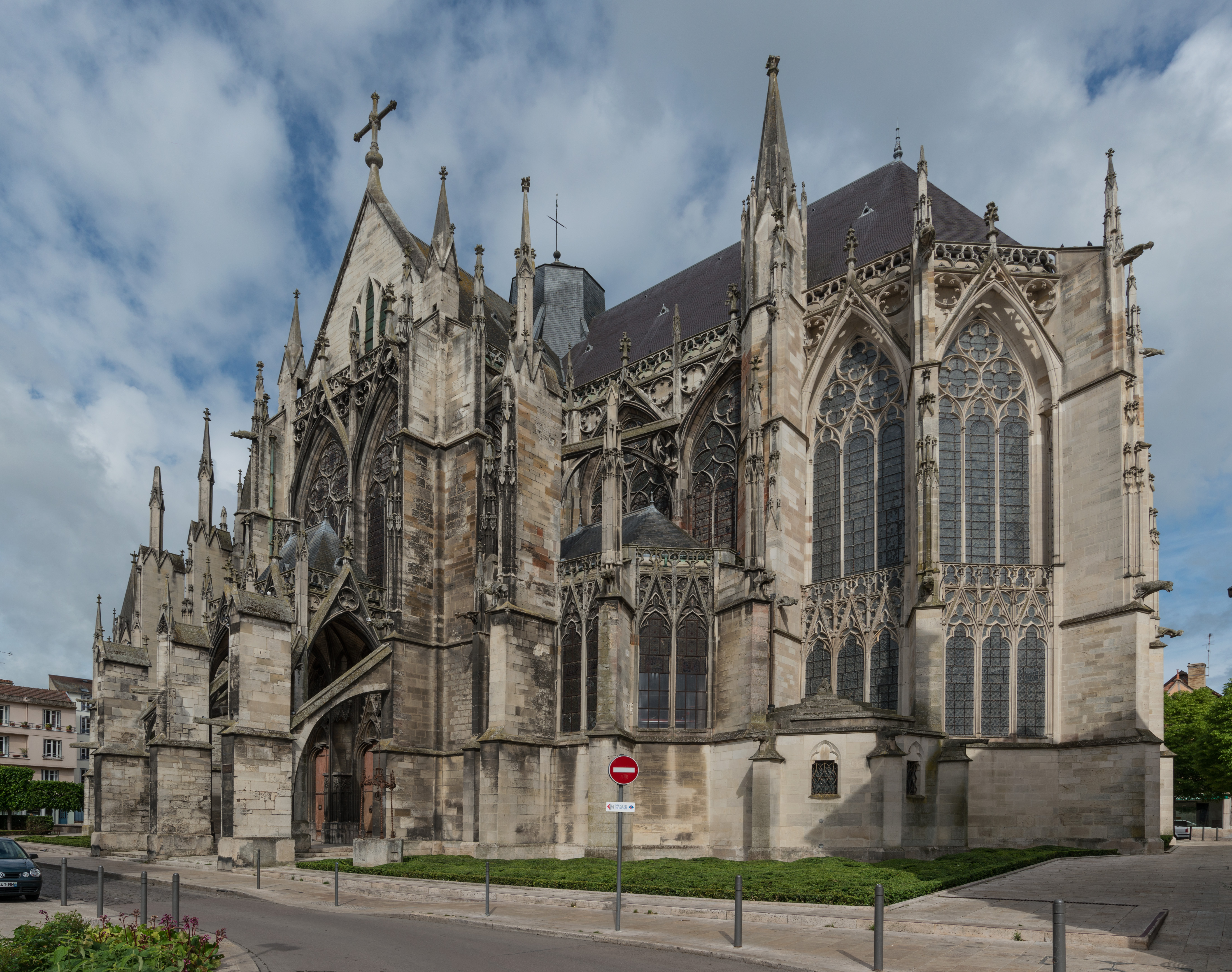 Basilique Saint-Urbain de Troyes, south-east view